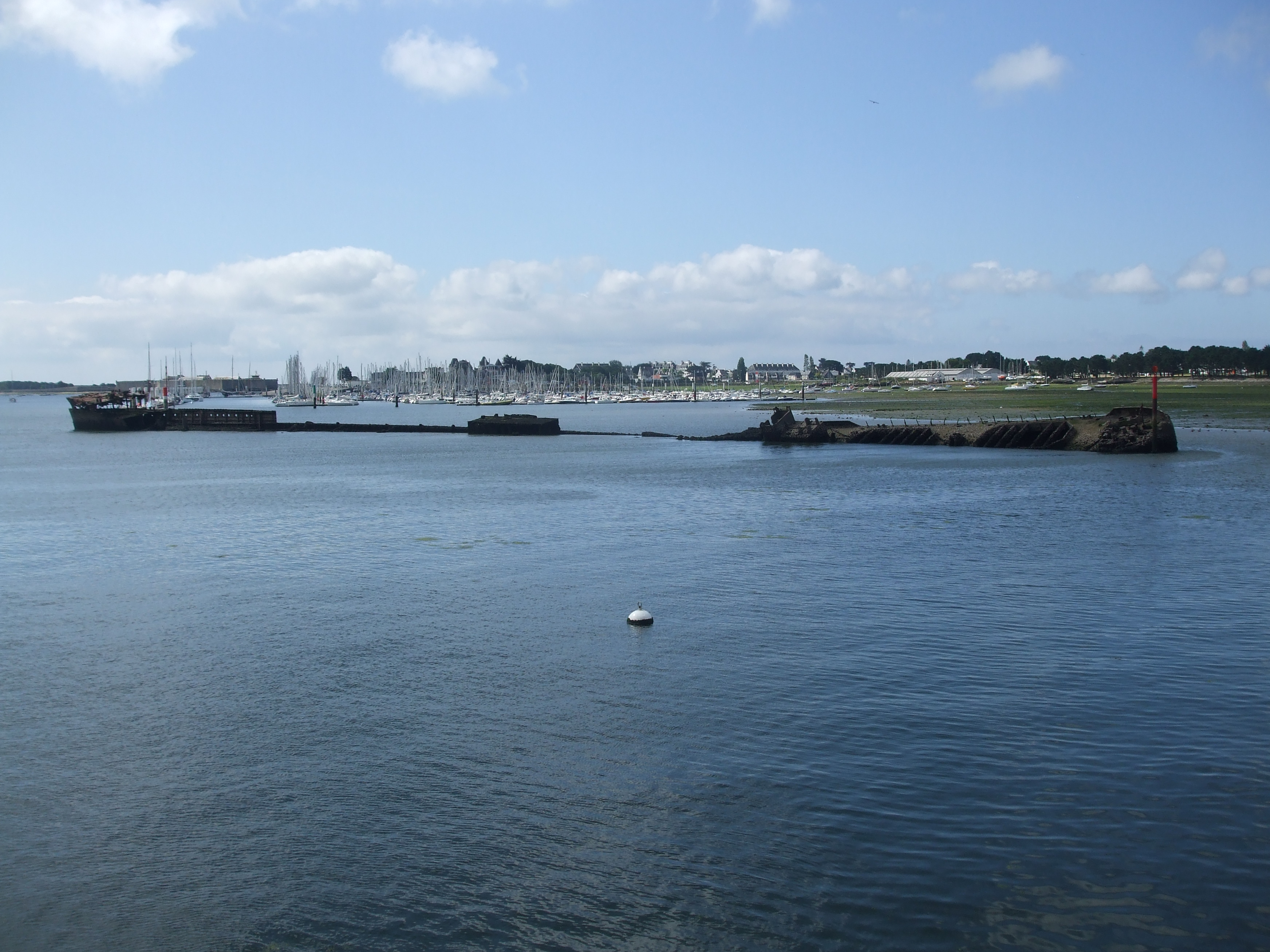 100 years after its building there are still some remains visible of the German cruiser "SMS Regensburg" of the Imperial Navy, renamed "Strasbourg" in French service after World War I, at Lorient in front of the U-Boat bunker.